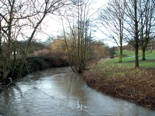 The River Dearne Pic taken from the back of Darton Post Office from the bridge.